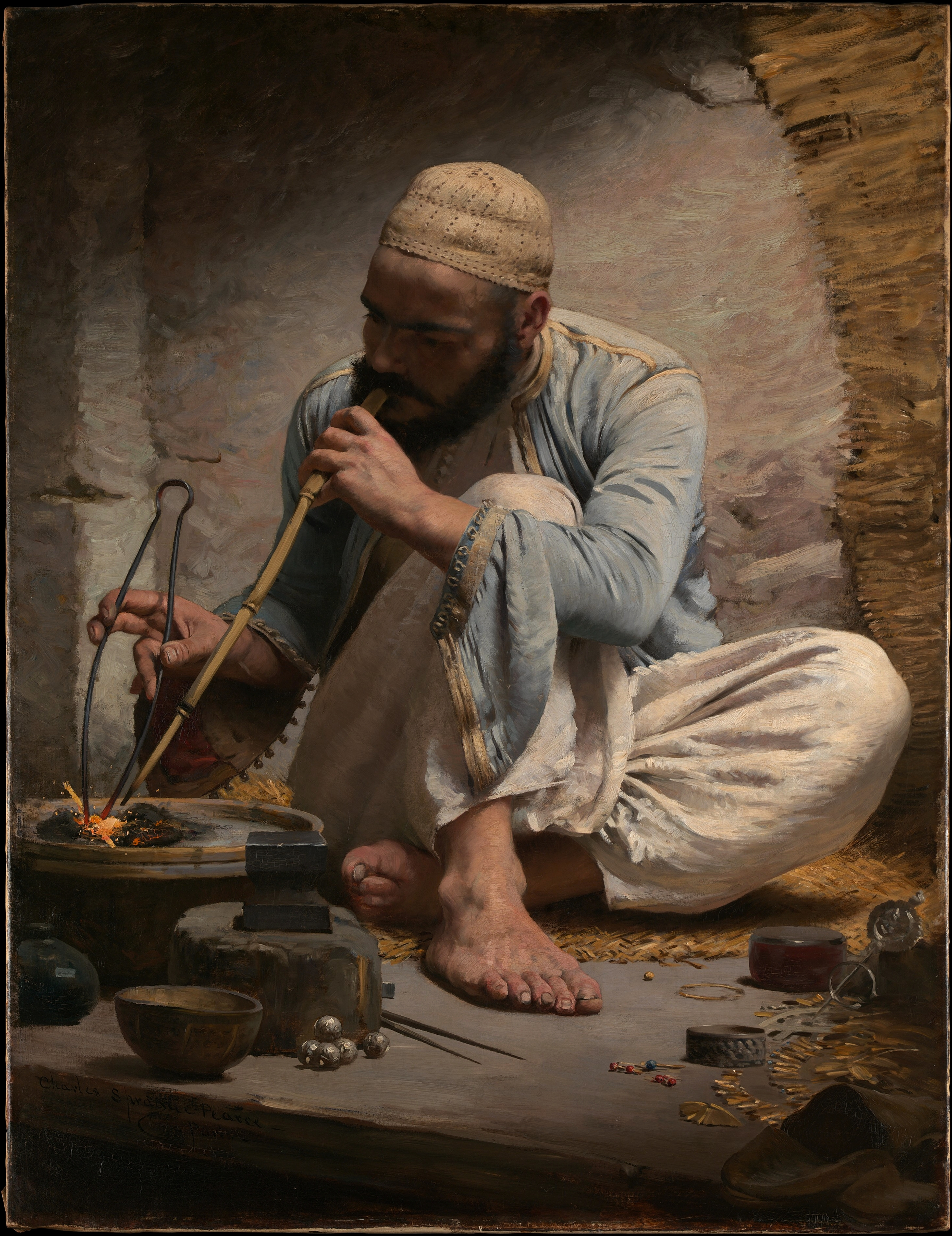 The Arab Jeweller